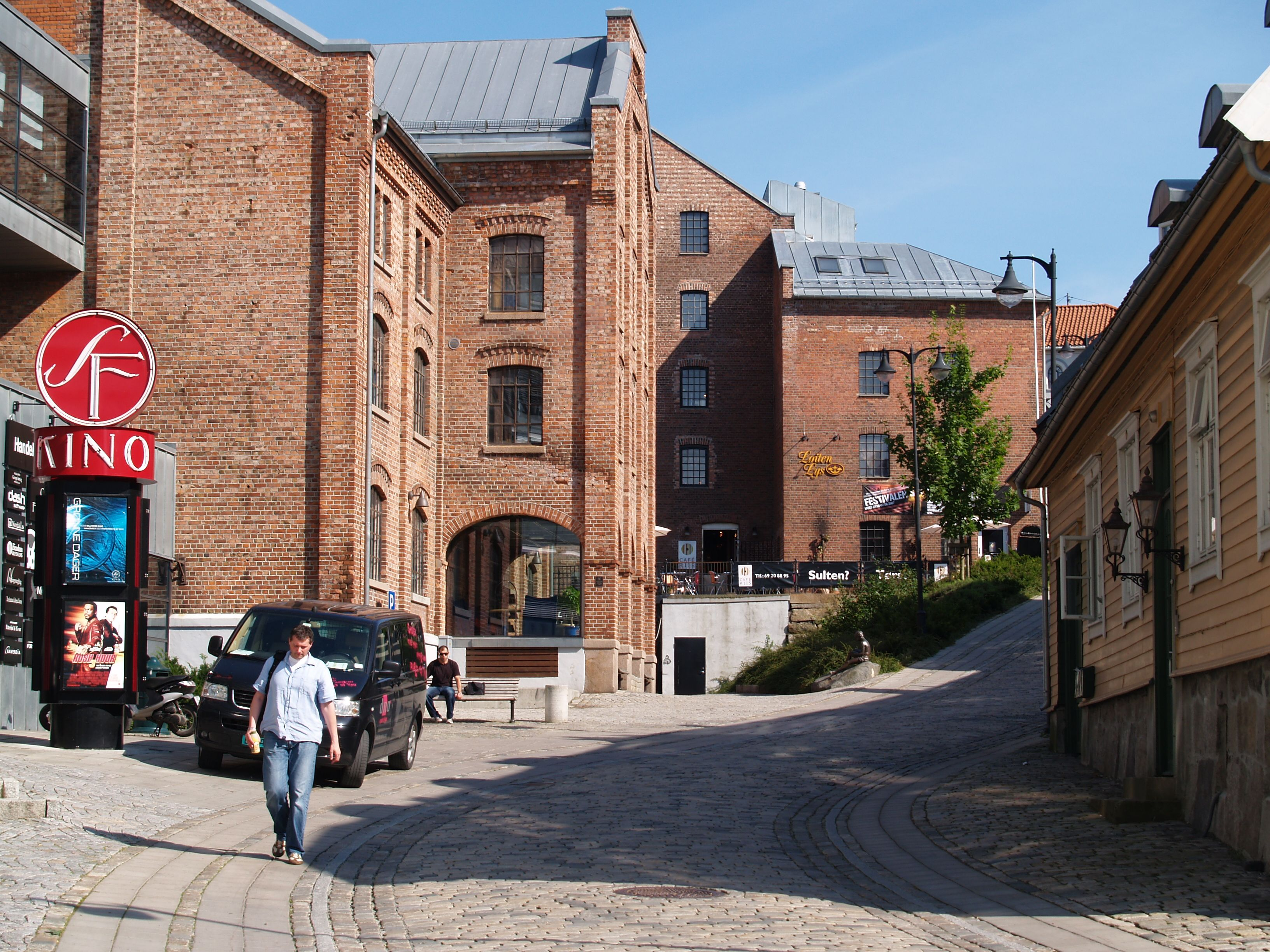 Detail from "Møllebyen" in Moss, Norway, with the cinema and the local library in the renovated factory buildings